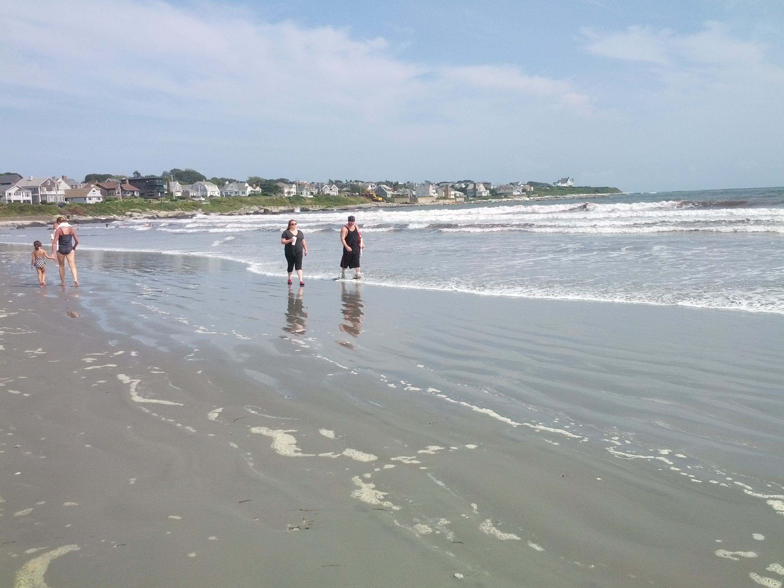 View of First Beach, Middletown, Rhode Island